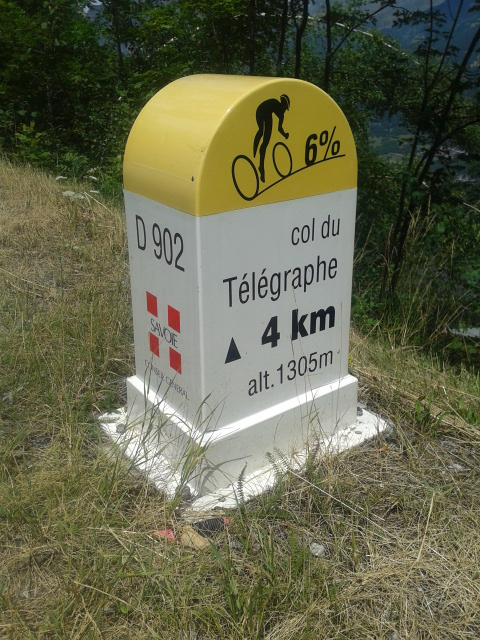 2015 Mountain pass cycling milestone - Telegraphe from Saint-Michel-de-Maurienne